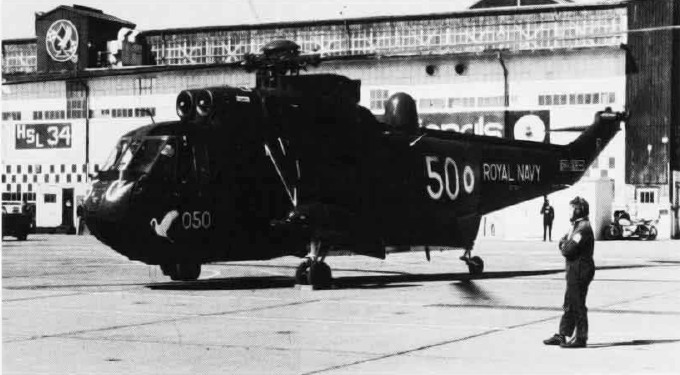 A Royal Navy Westland Sea King HAS.2 of No. 824 Squadron from the British aircraft carrier HMS Ark Royal (R09) at Naval Air Station Norfolk, Virginia (USA), in 1975.